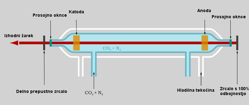 Diagram of a Carbon-Dioxyde Laser (CO2).